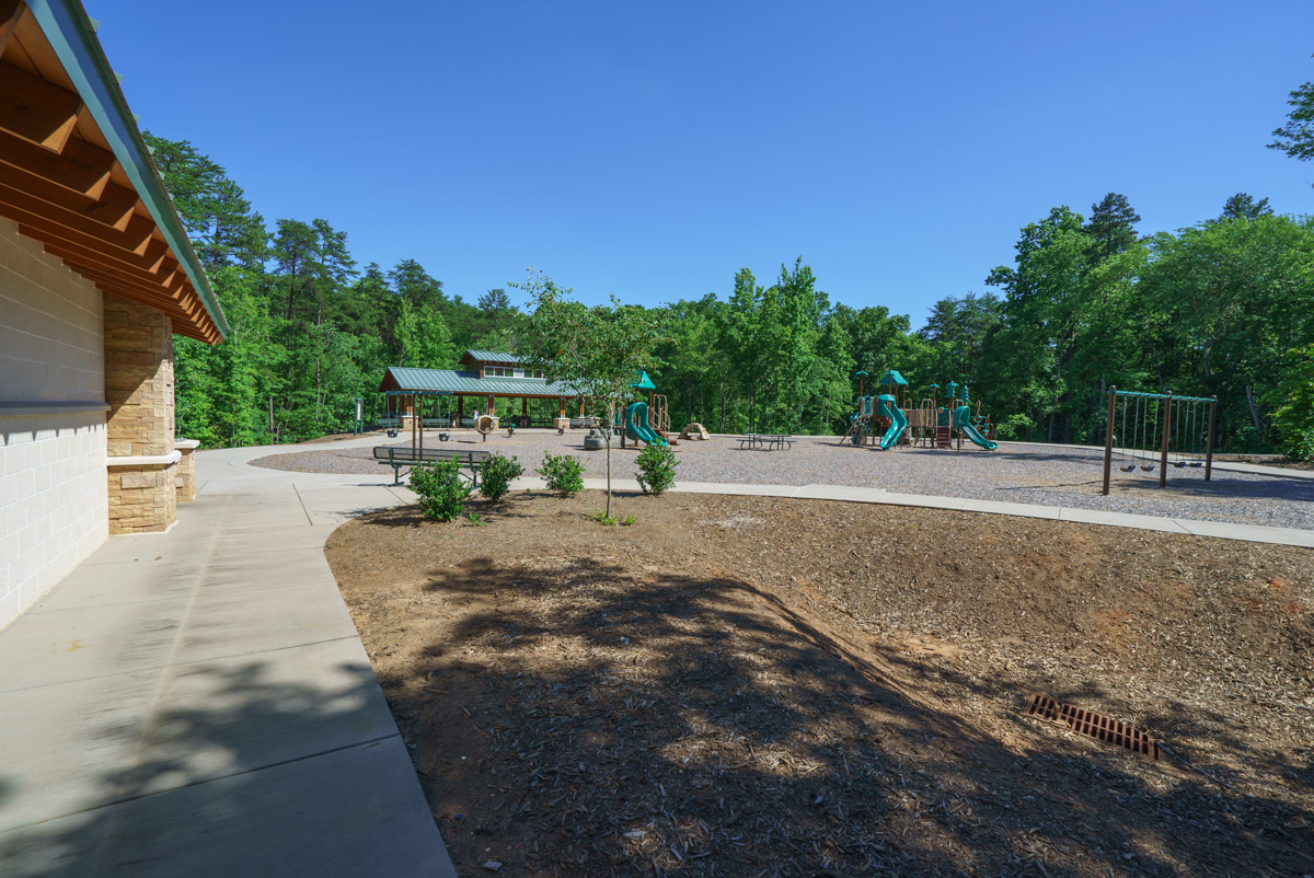 Park in Denver NC - Rock Springs Nature Preserve, view of large playground area.